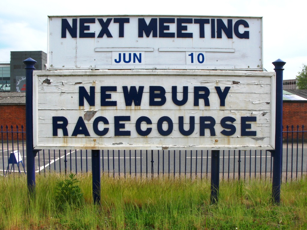 This sign at Newbury Racecourse railway station is of a standard Great Western Railway design but carries an addiitonal sign (supported by the middle two uprights) to advertise the date of the next horse race.